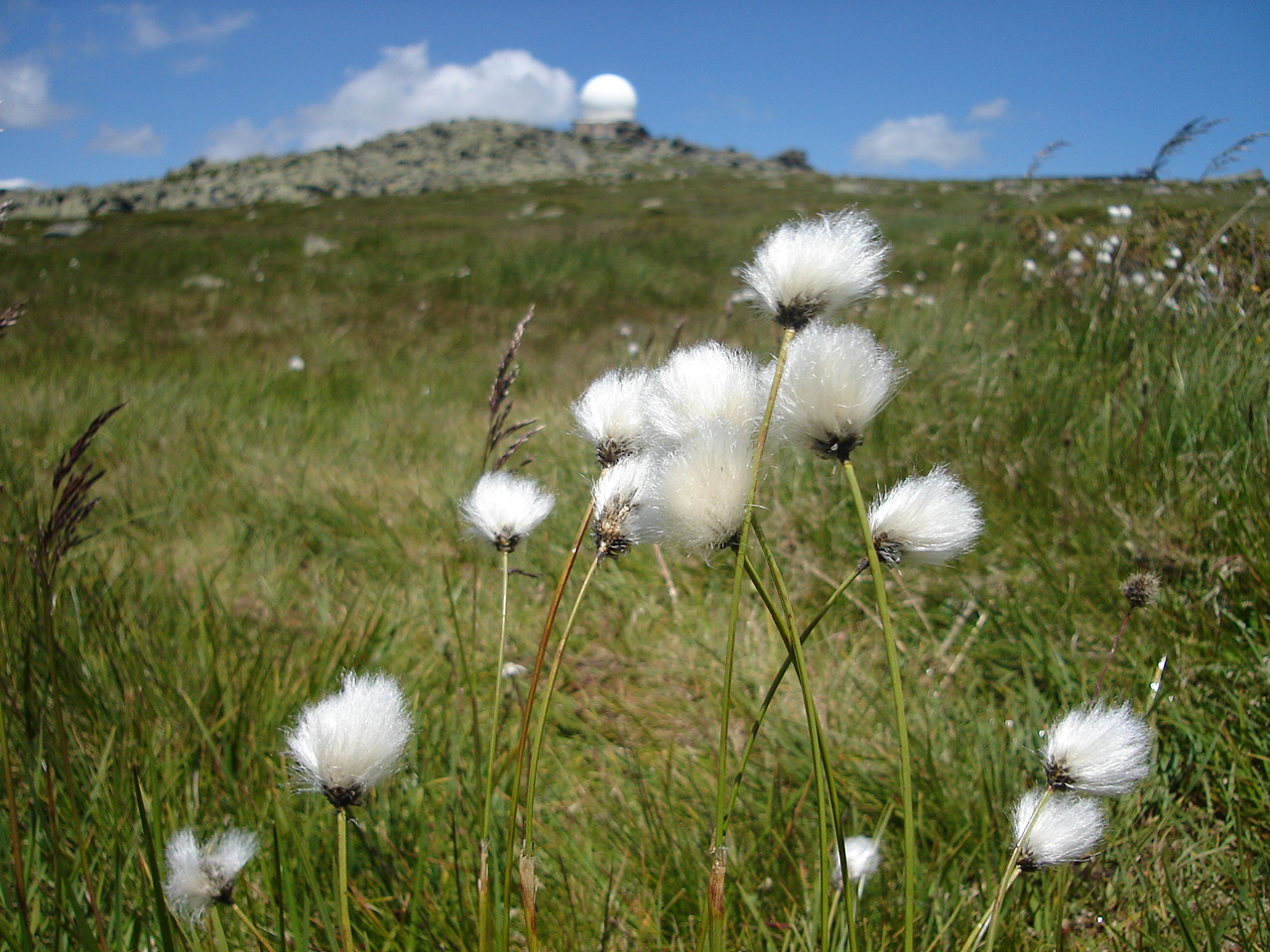 Eriophorum vaginatum, Vitosha mountain, Bulgaria